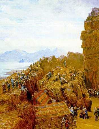 Recoloured crop of larger painting showing a romanticised view of the 11th century Althing (Viking parliament) in session.